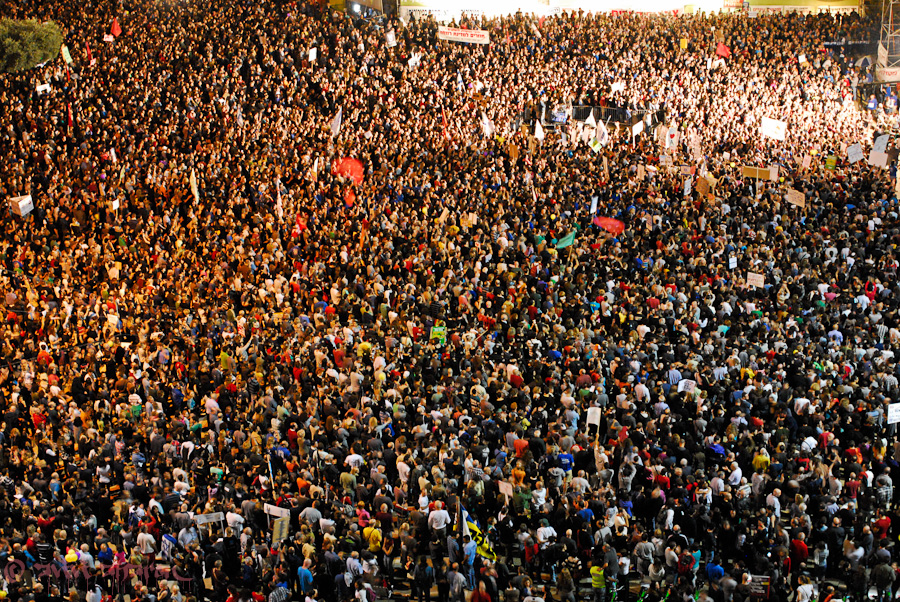 70,000 people on Israeli social justice protests Rabin Square Tel aviv 29 october 2011